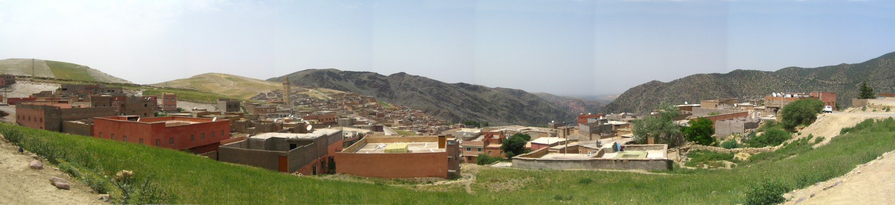 Pictures taken and stitched by me personally.